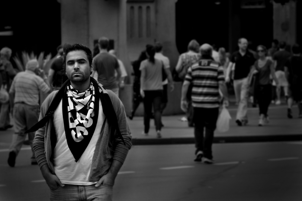 This photo has been taken by a photographer for Philogresz in Sydney, Australia (February 2010)